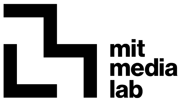 Logo of the MIT Media Lab, an interdisciplinary research laboratory at the Massachusetts Institute of Technology